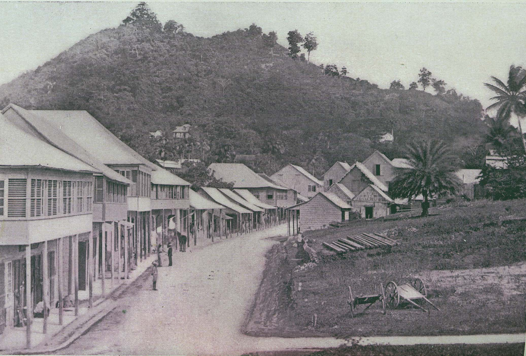 Image published in 1897 - no copyright.